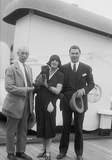 Hal De Forrest (left), actor, and Jack Dempsey with wife